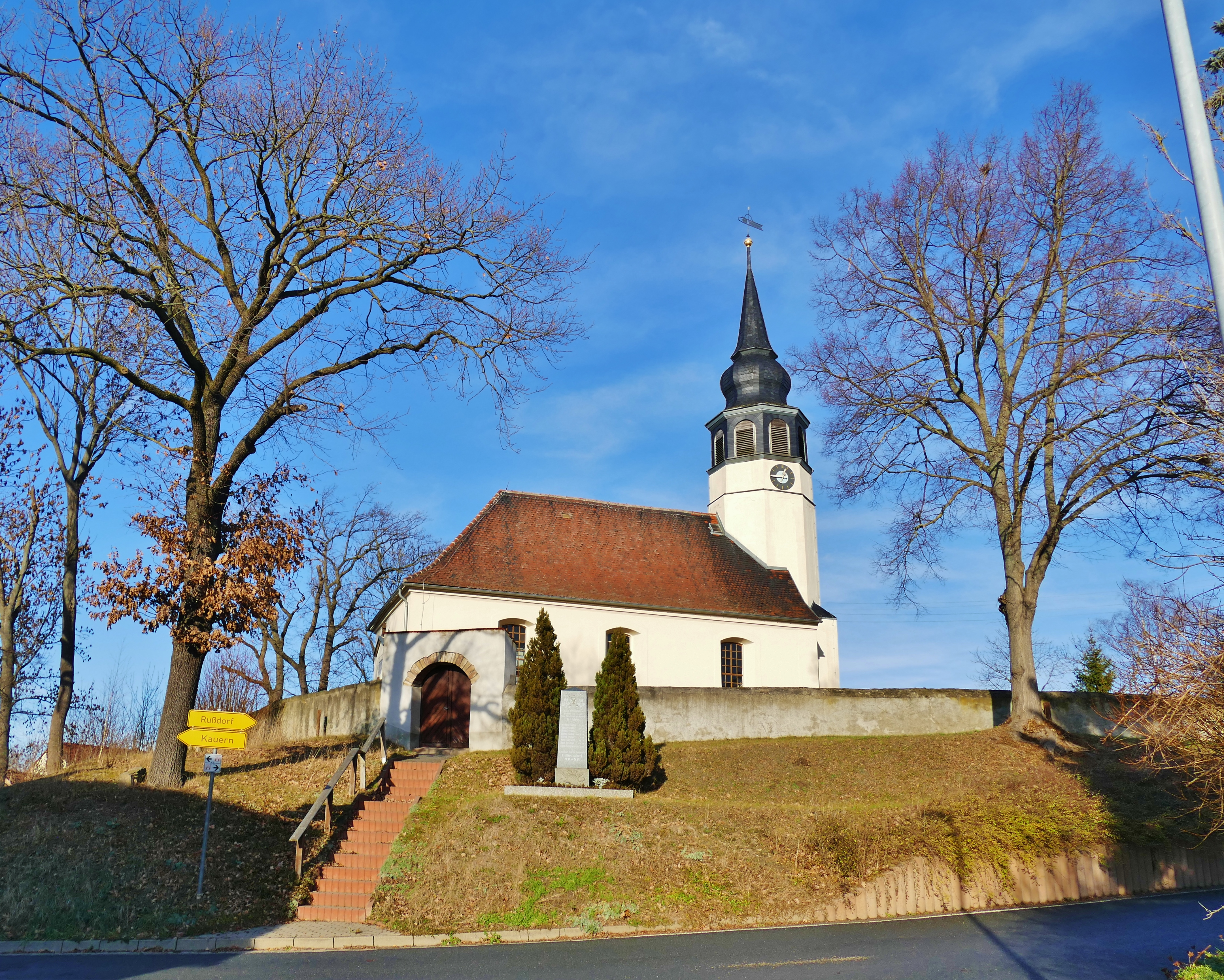 Church Hilbersdorf (Thuringia)